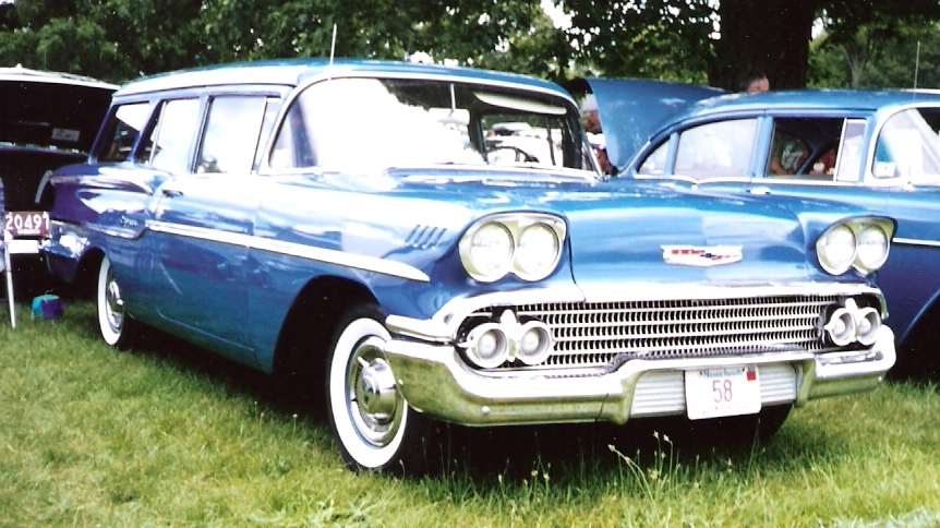 1958 Chevrolet Yeoman 2-door station wagon that I photographed at Endicott Estate in Dedham, Massachusetts.